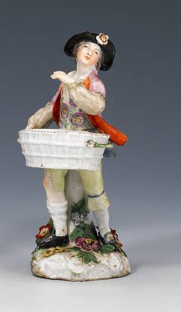 A Street Vendor